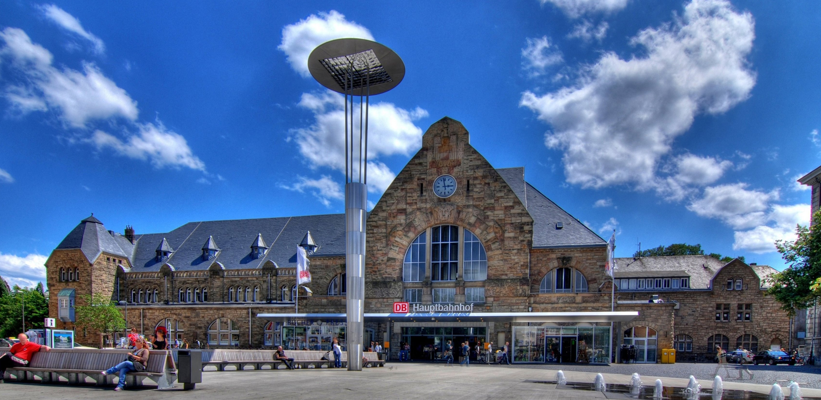 Aachen main station with plaza after reconstruction